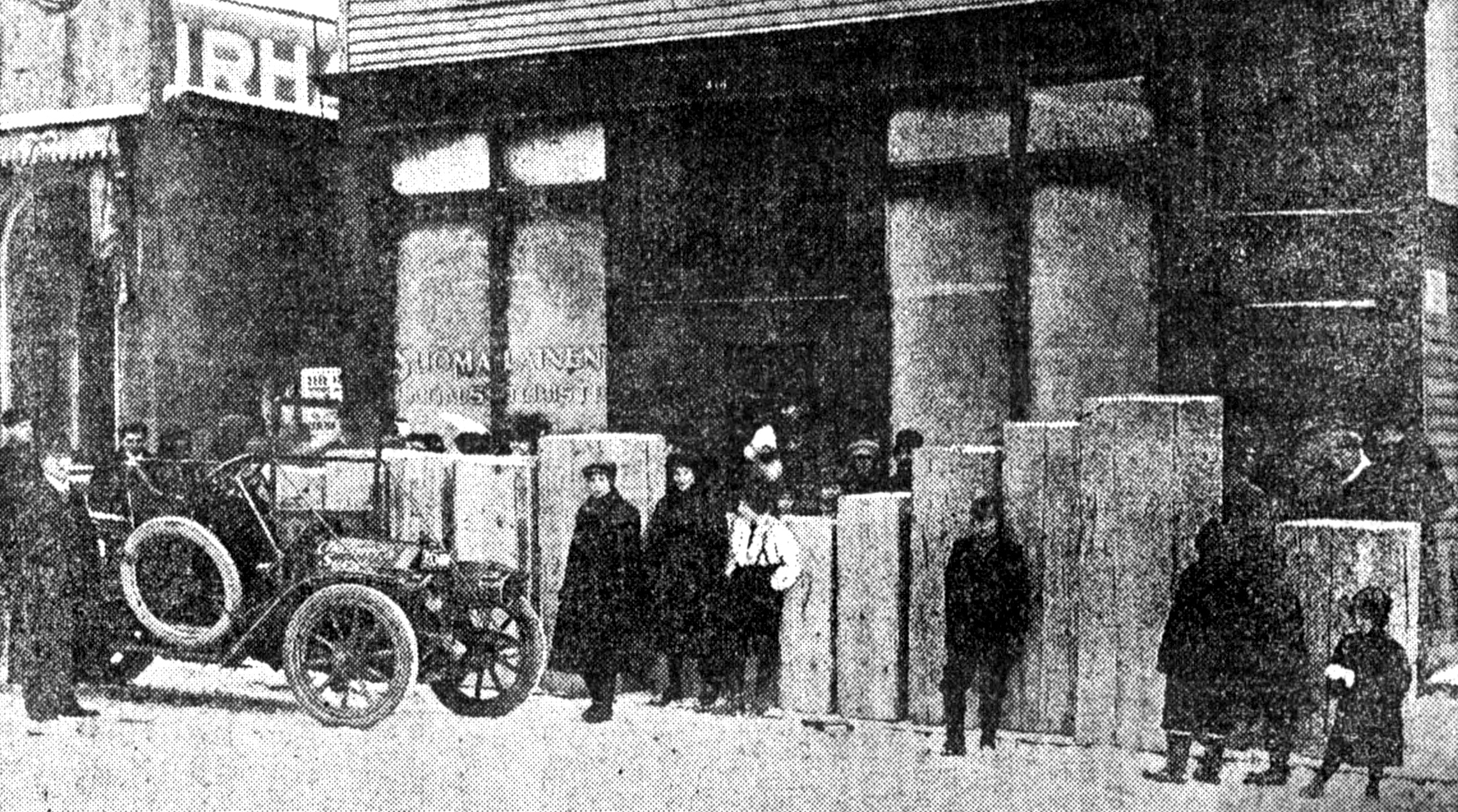 Original caption: Rough boxes in which Calumet victims were buried Believe this is related to: Striking miners and their families were gathered on Christmas Eve for a party in Italian Hall, when the cry of "fire" precipitated a stampede that crushed or suffocated seventy-three victims, the majority of them children. The identity of the person(s) who started the stampede has never been determined. Folk singer Woody Guthrie's song, "1913 Massacre", is based on this event.